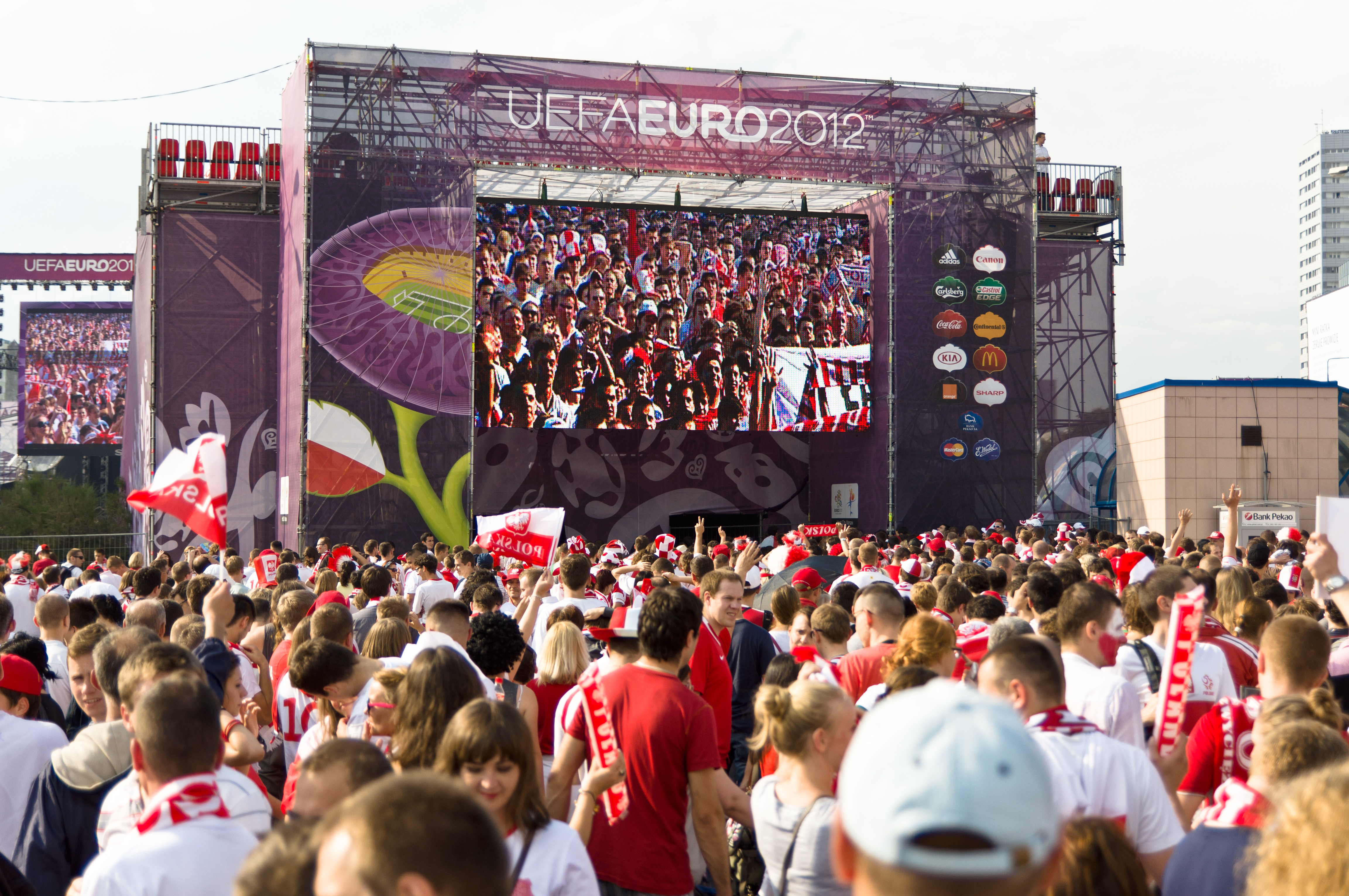 UEFA Euro 2012 Fanzone in Warsaw, a while before Poland vs Greece match.